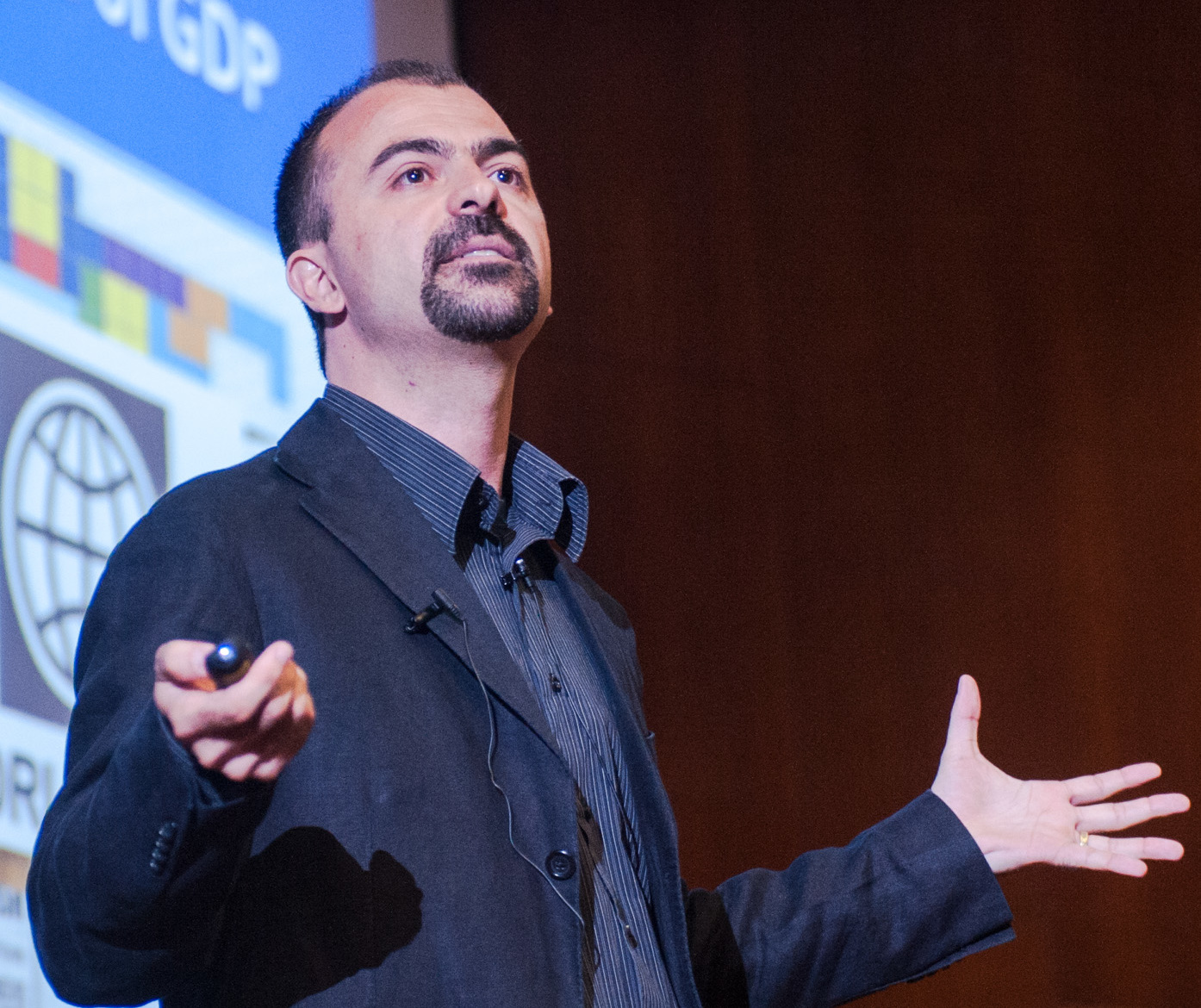 Lorenzo Fioramonti giving a speech